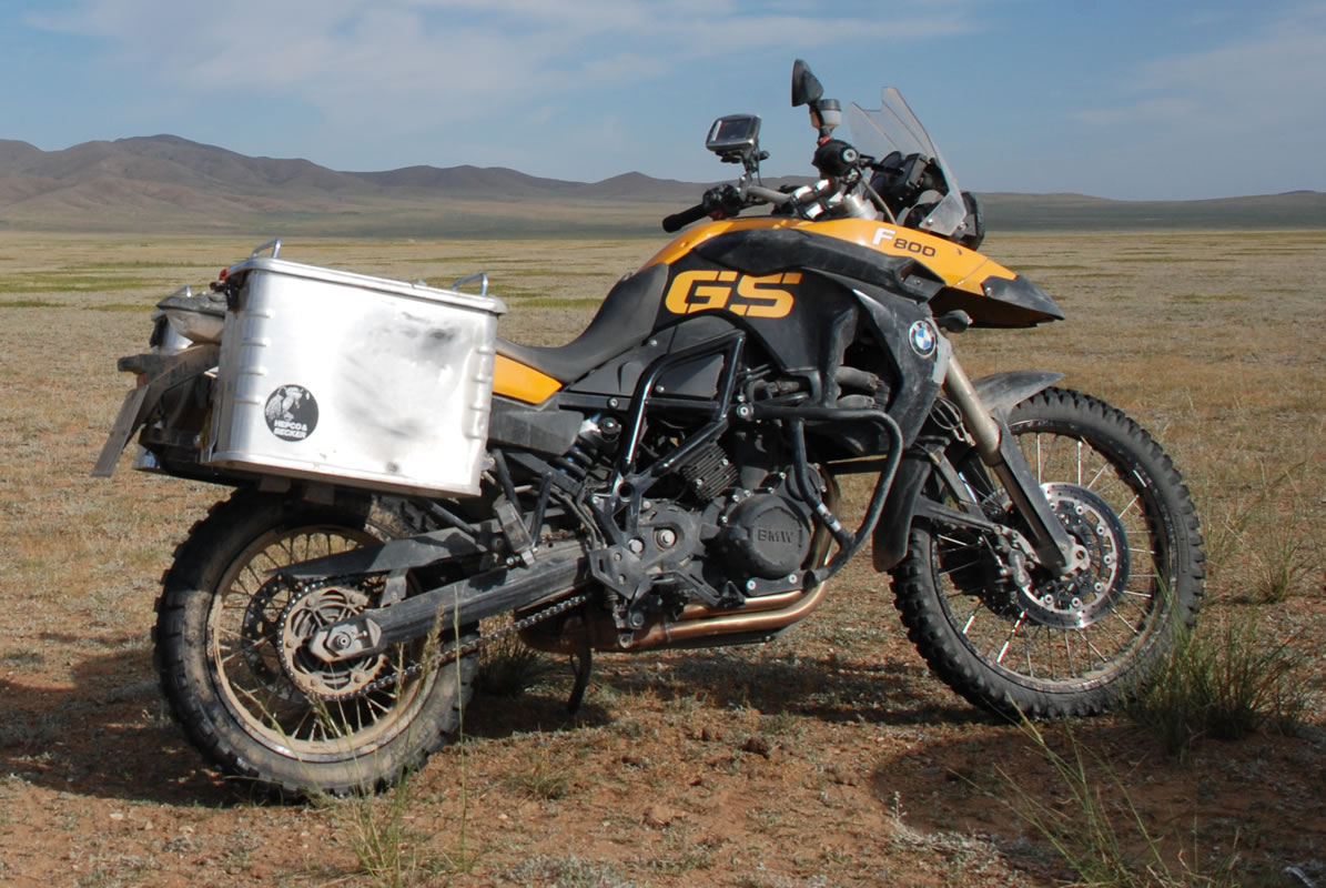 Dual-purpose motorcycle BMW F800 GS